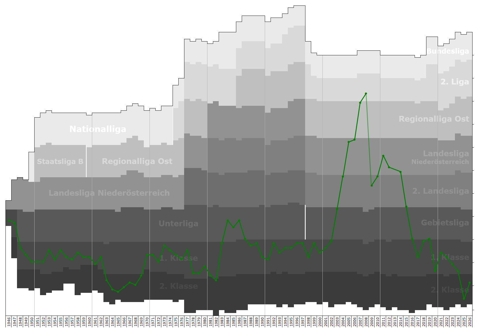 Chart of end-season table positions of SK Schwadorf in the Austrian football league system. Data source: RSSSF, , regiowiki.at, wfv.at, wikipedia